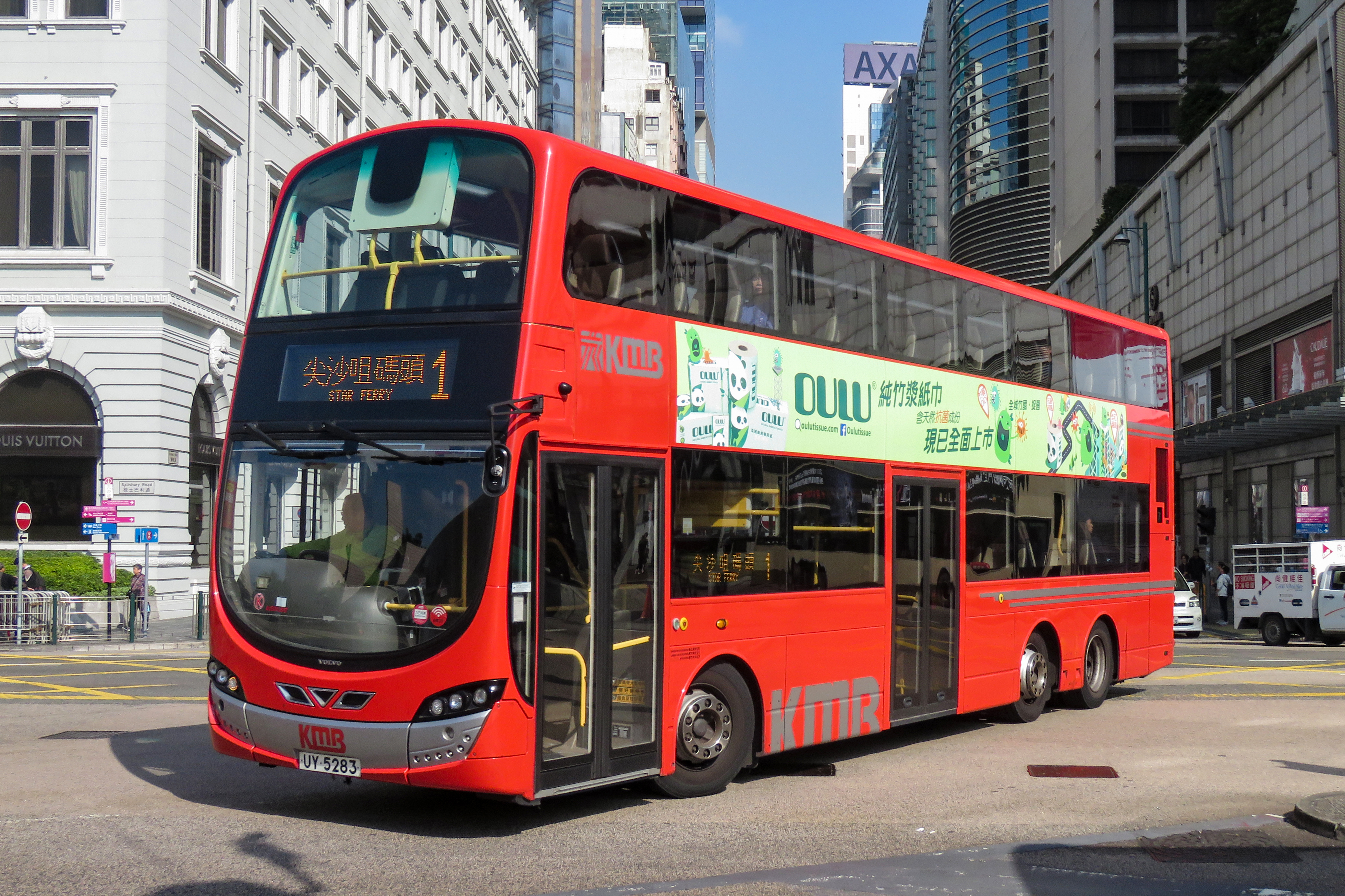 None of the Gemini 3's have been running these routes yet.